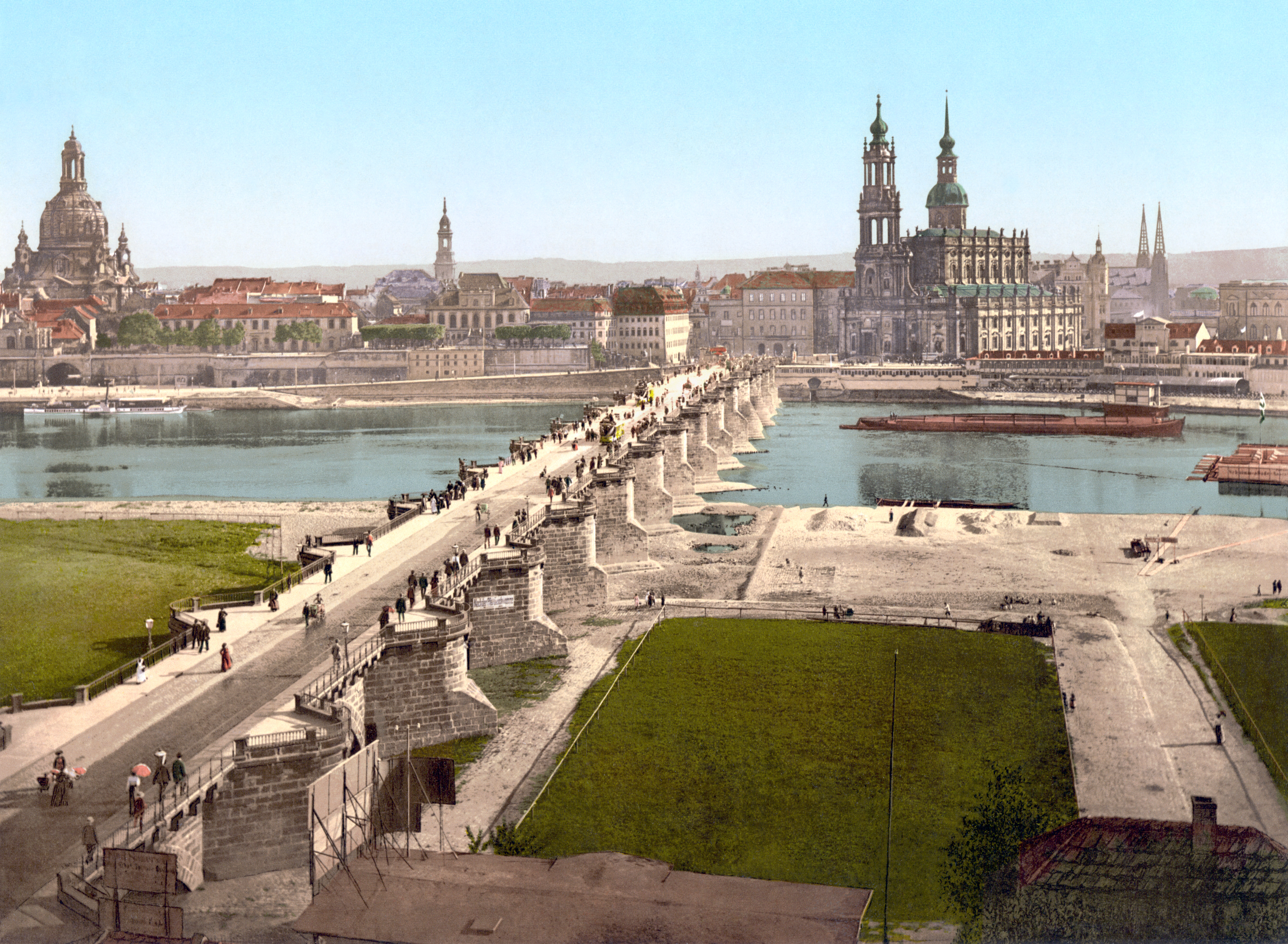 Altstadt (old city), Dresden in the late 19th century. View from the War Ministry. Photochrom print.